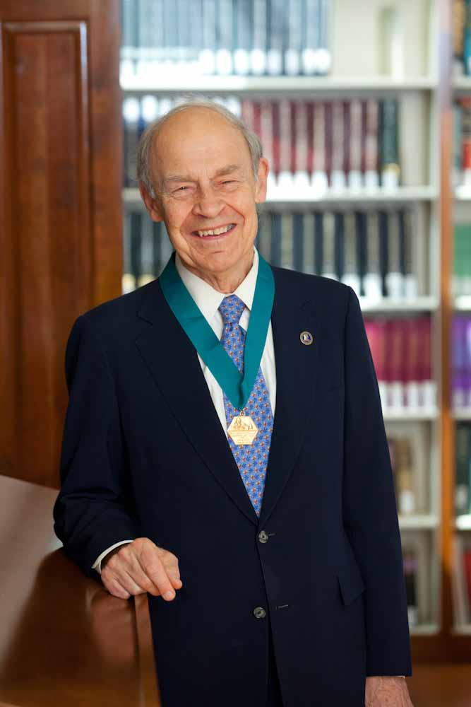 Photograph of chemist Dudley R. Herschbach, chemist and recipient of the 2011 AIC Gold Medal, 7 April 2011, at Heritage Day, Chemical Heritage Foundation, Philadelphia, PA, USA.